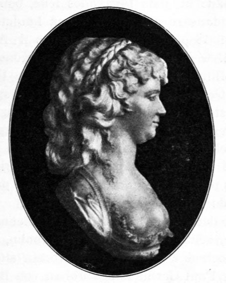 Francisca Stading, German/Swedish opera artist.